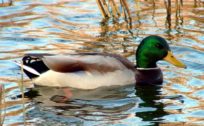 A mallard (Anas platyrhynchos) drake swimming in Vartiokylänlahti bay near the Vuosaari bridge, in Eastern Helsinki, Finland.